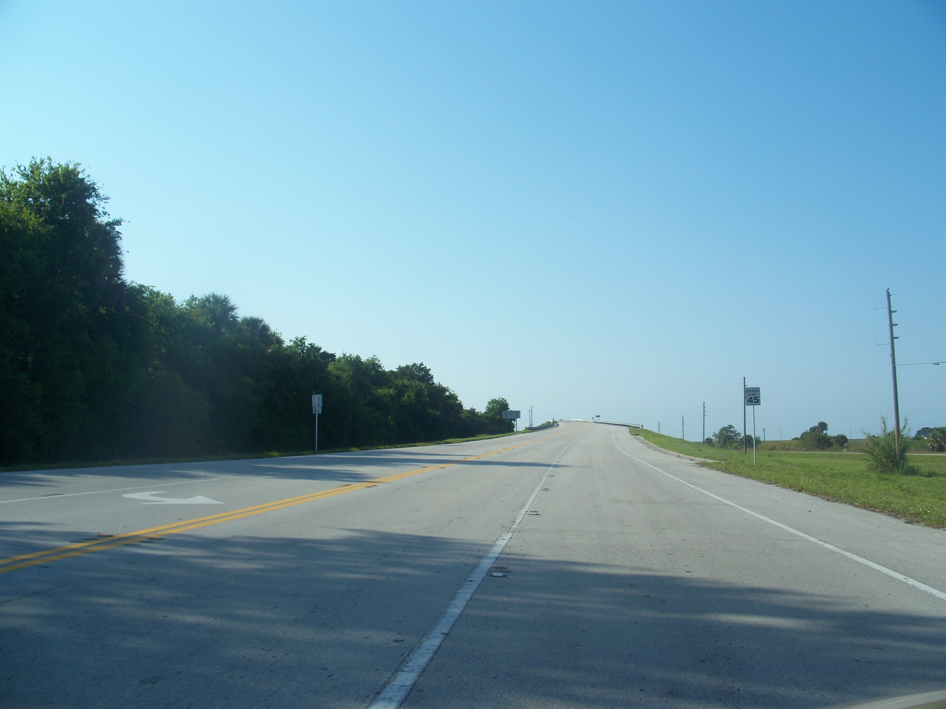 Port Mayaca, Florida: US 441/98 and SR 15/700